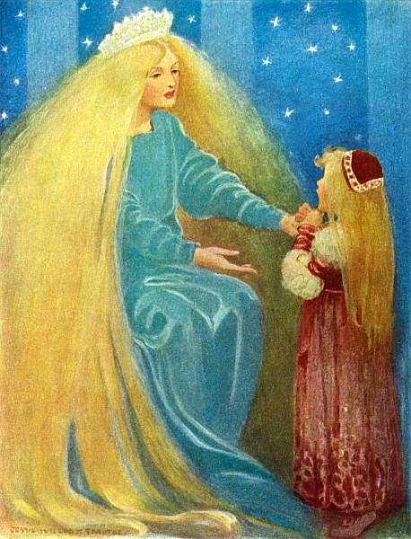 From The Princess and the Goblin by George MacDonald, illustrated by Jessie Willcox Smith, 1920